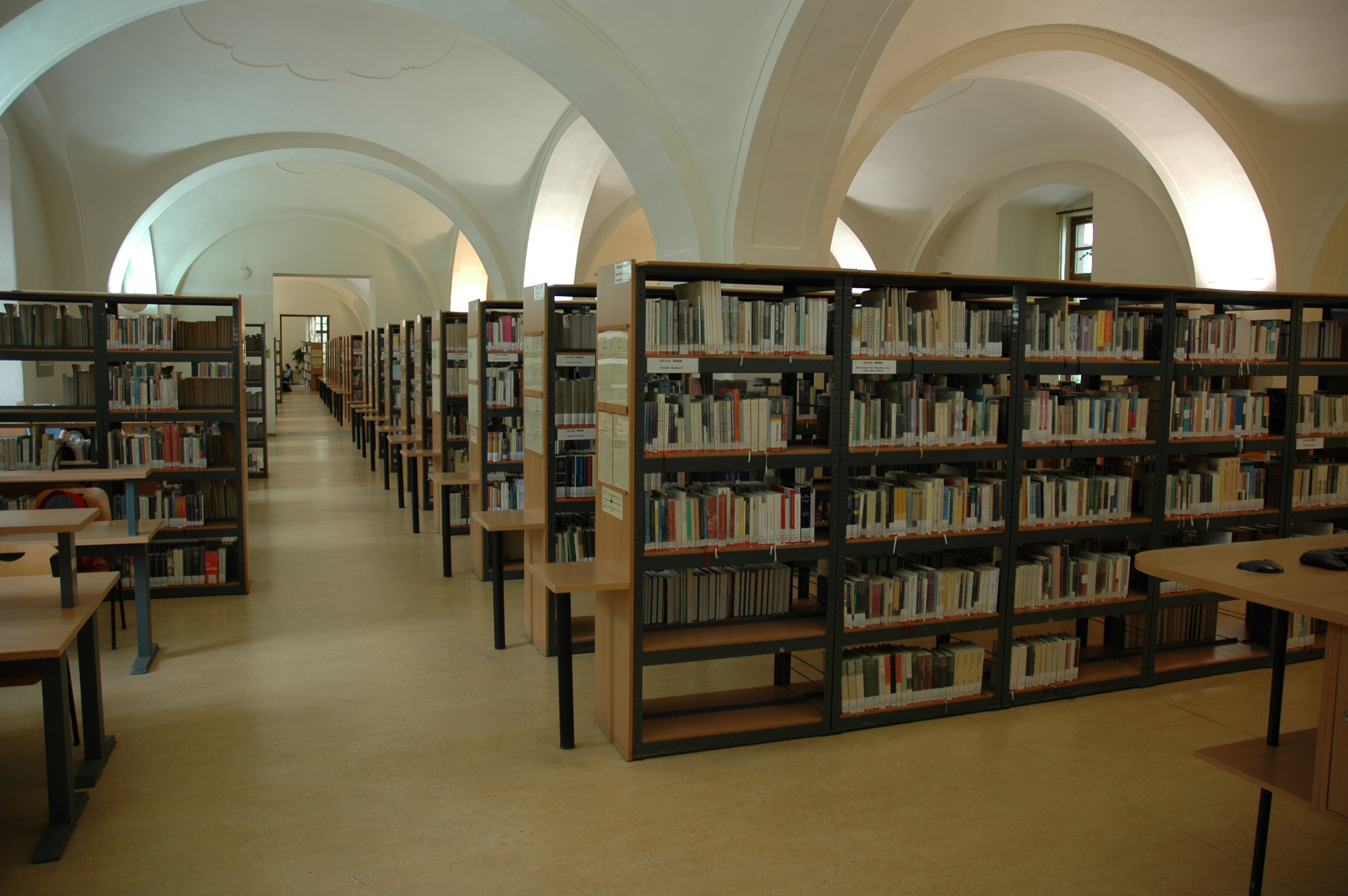 The former armoury – today Library of Palacký University in Olomouc, Czech Republic.